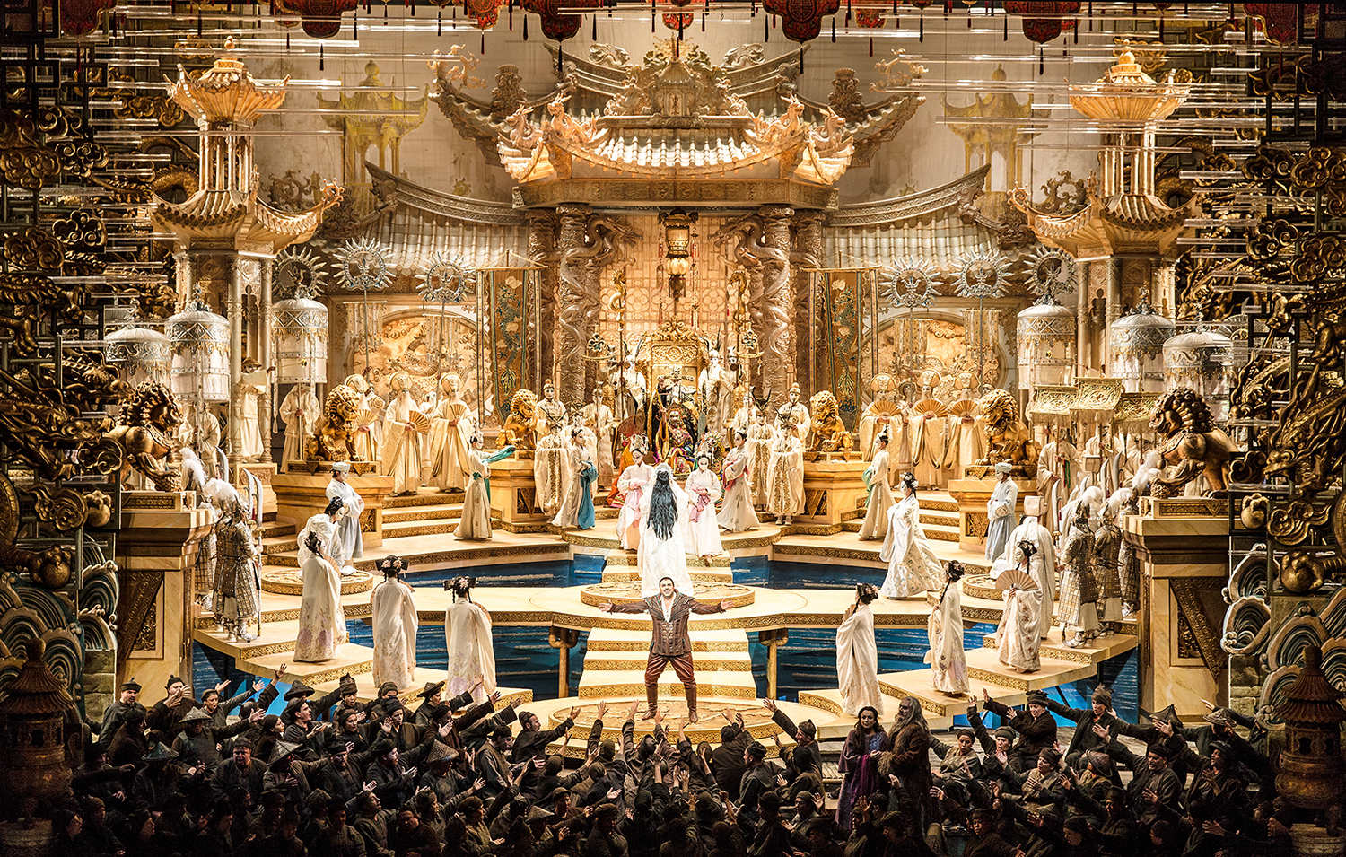 Turandot, the first performance at Royal Opera House Muscat (ROHM). Opera by Verdi. by Khalid AlBusaidi